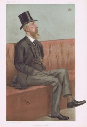 Caricature of The Duke of Devonshire. Caption read "Education and Defence".